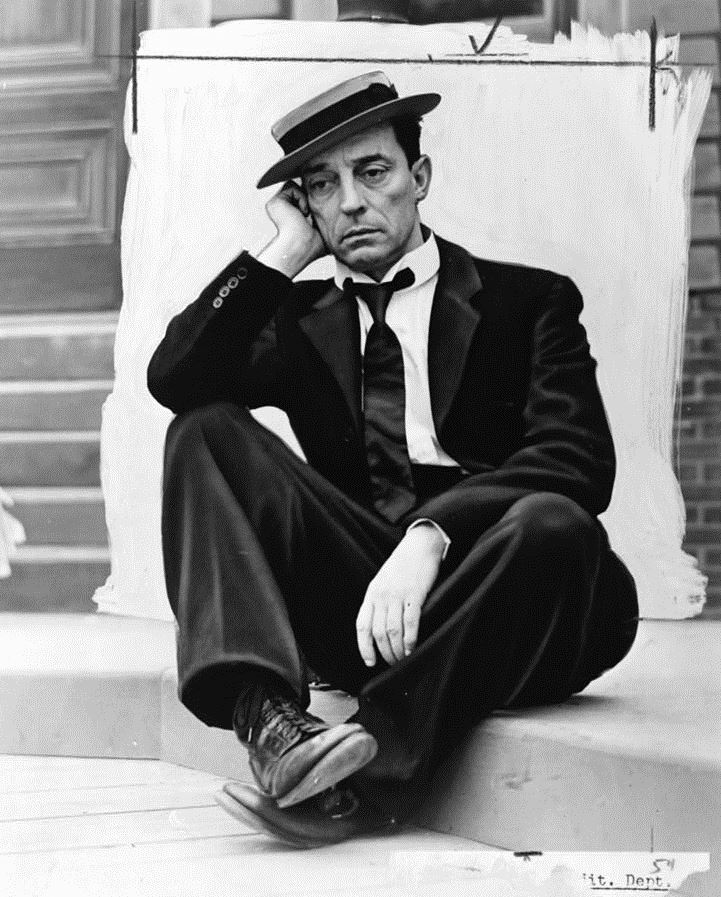 Buster Keaton, full-length portrait, seated, in costume